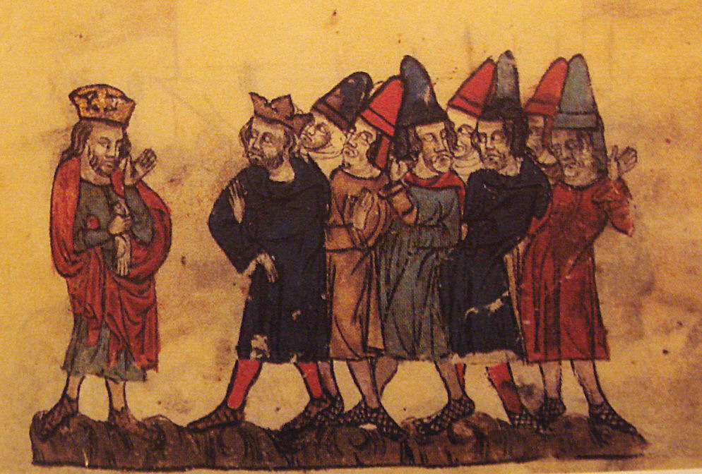 Hetoum II Parting With Ghazan and his Mongols in 1303